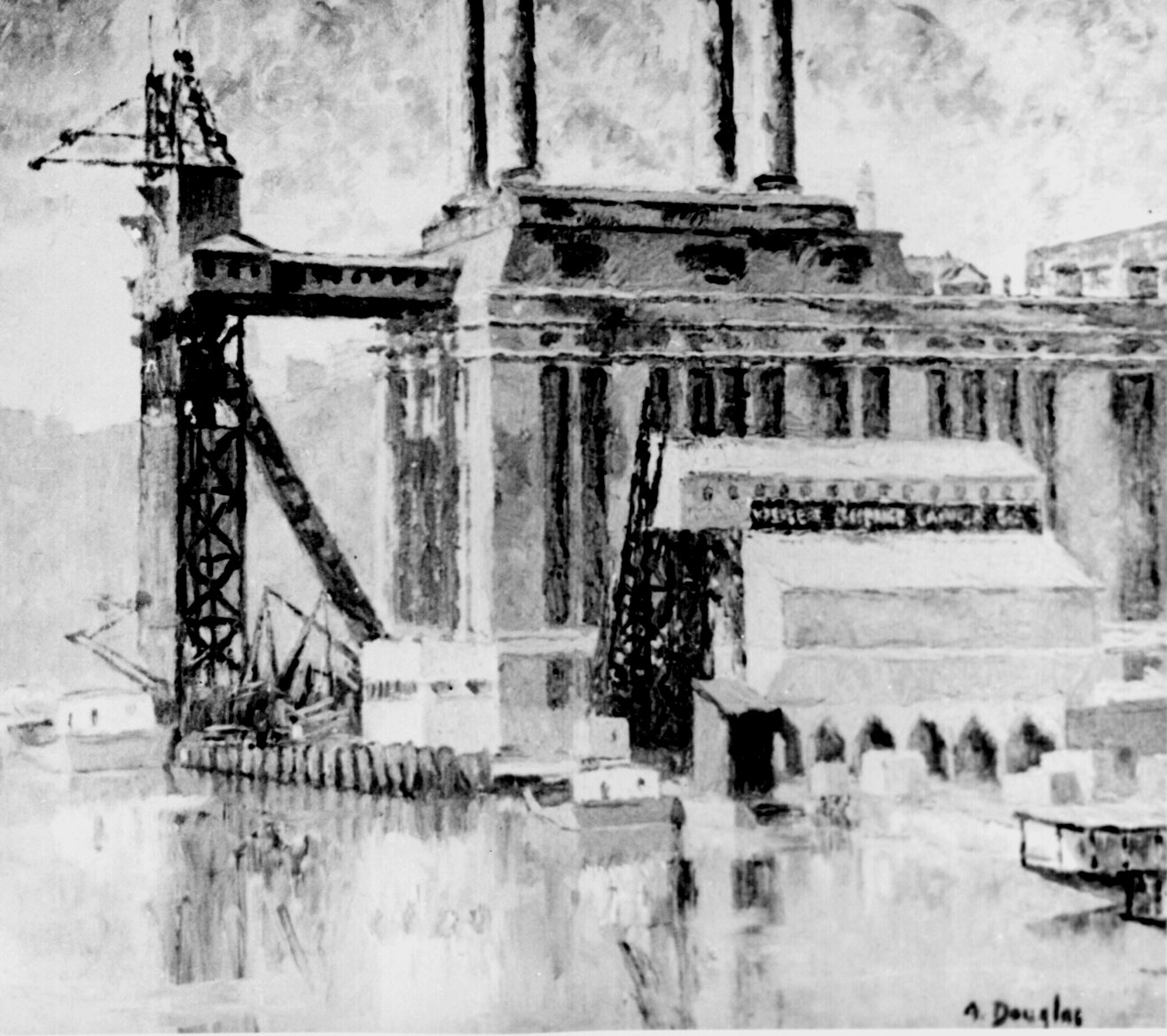 Power Plant, Harlem by Aaron Douglas. Oil. 1939.